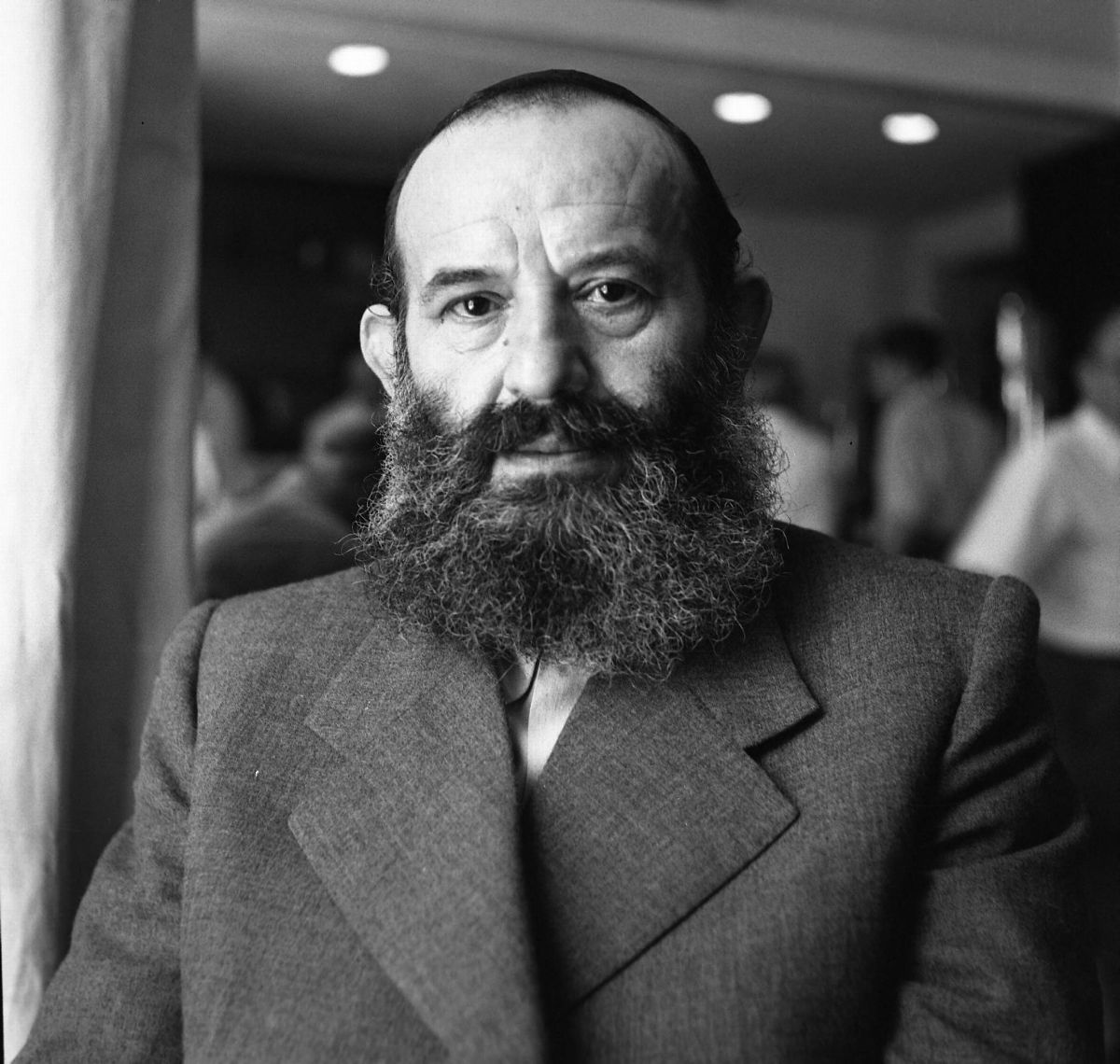 Knesset member - Zalman Ben Yaakov